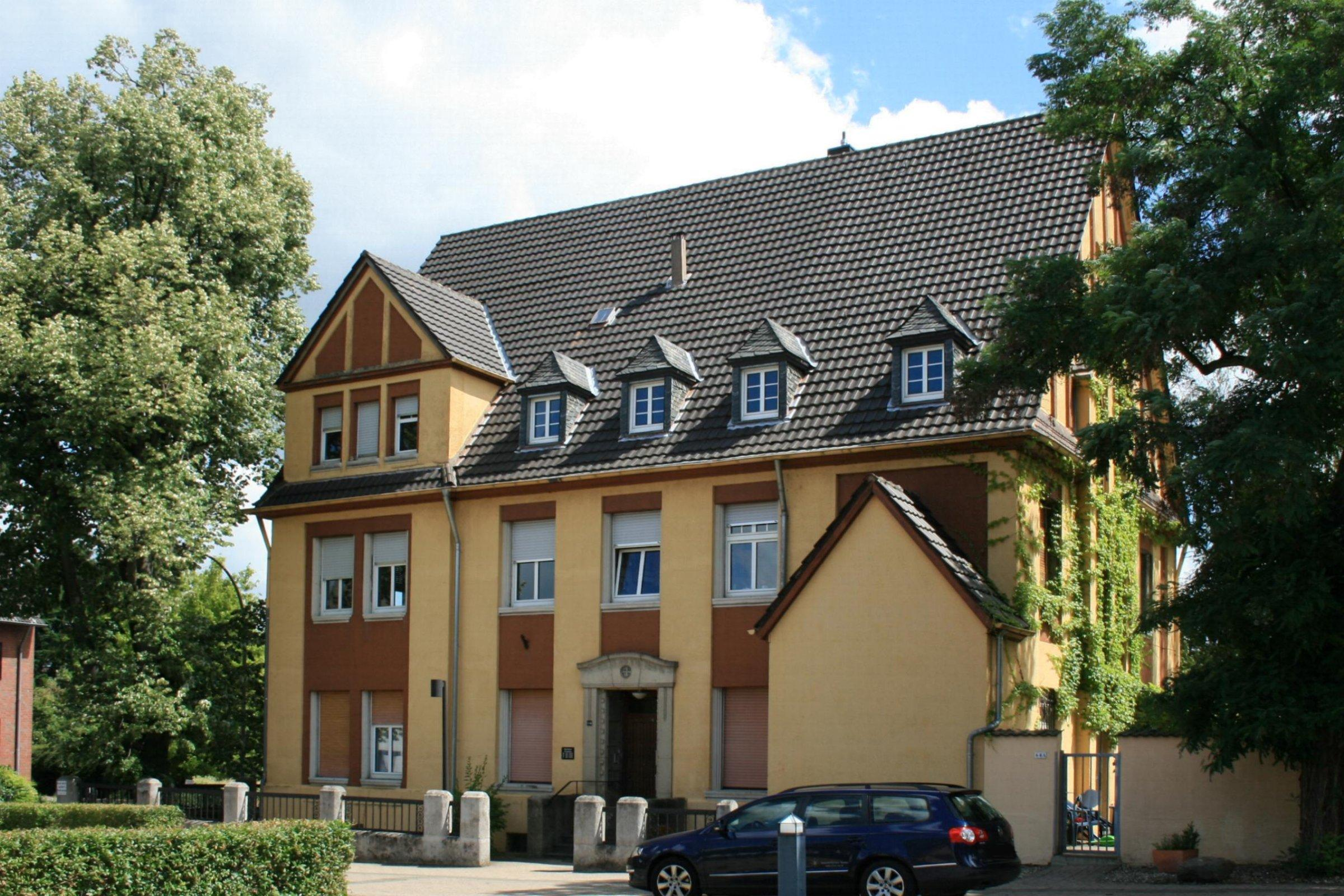 Cultural heritage monument No. H 078 in Mönchengladbach